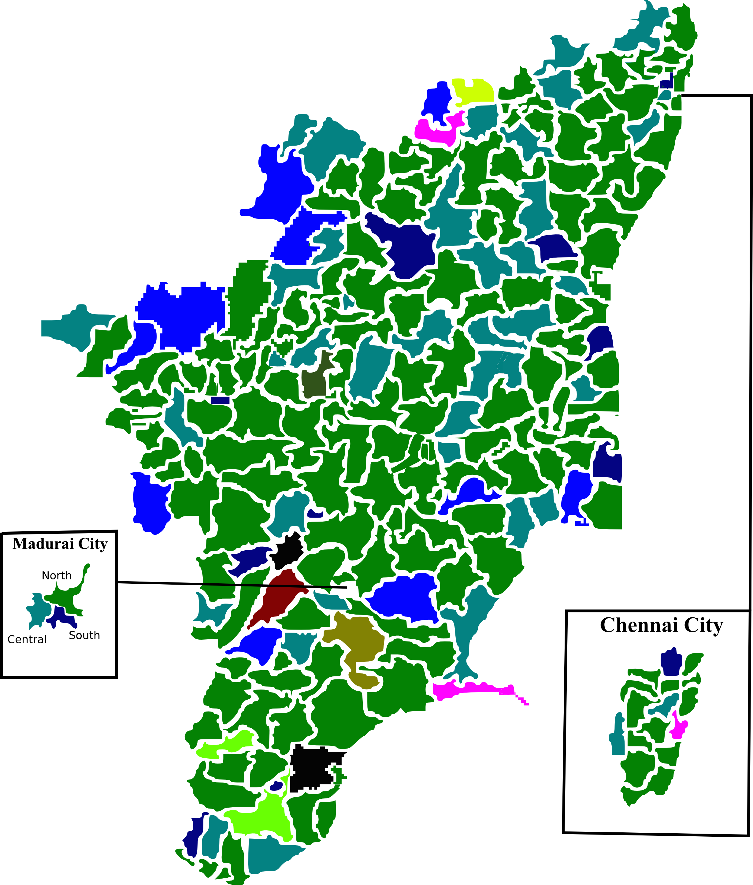 made election map using borders from ECI website using Inkscape. Source for the data is from the table posted in the main election page. Color key is on the main election page in the table.